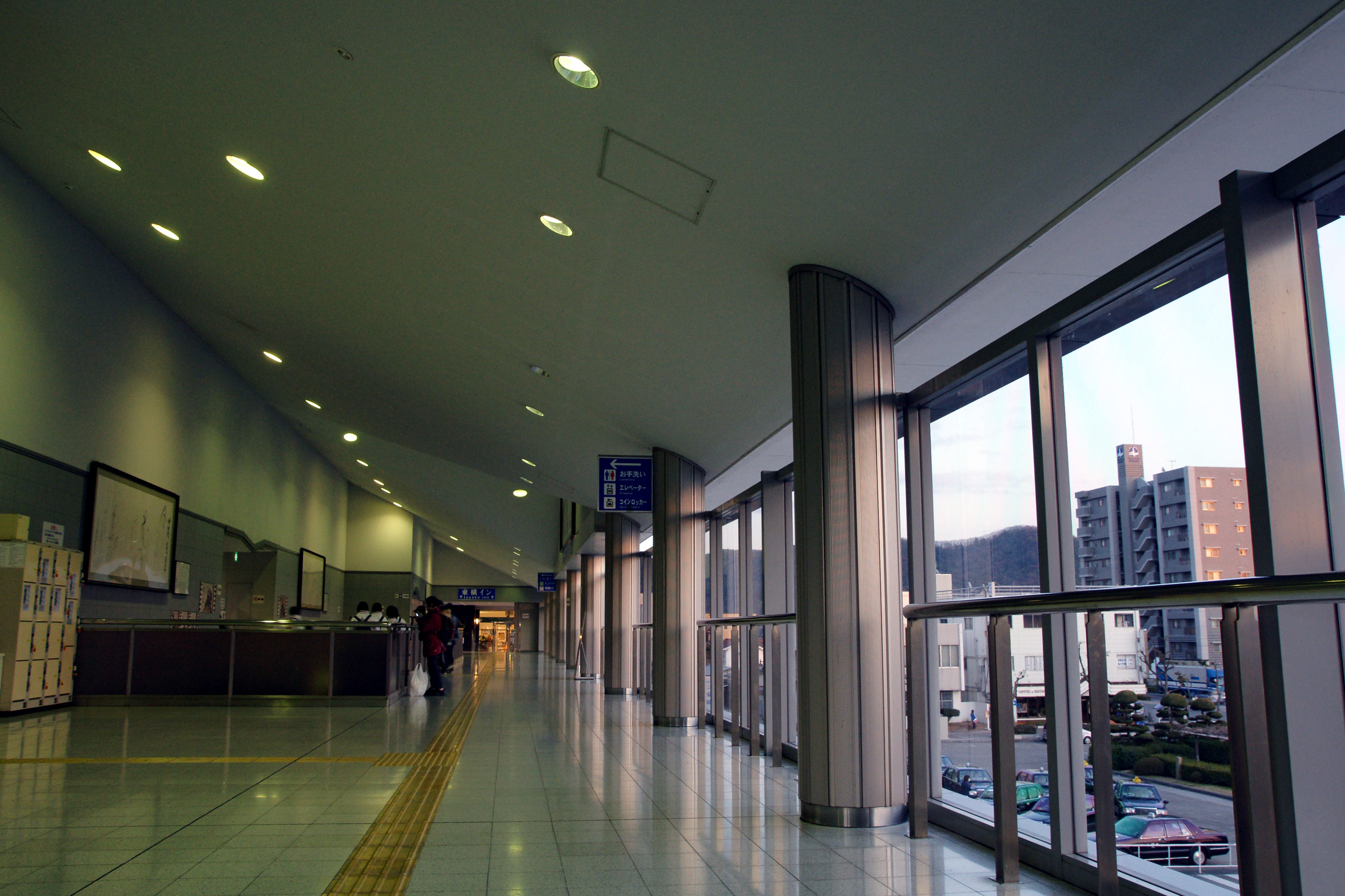 Bansyu Ako Station in Akō, Hyogo prefecture, Japan